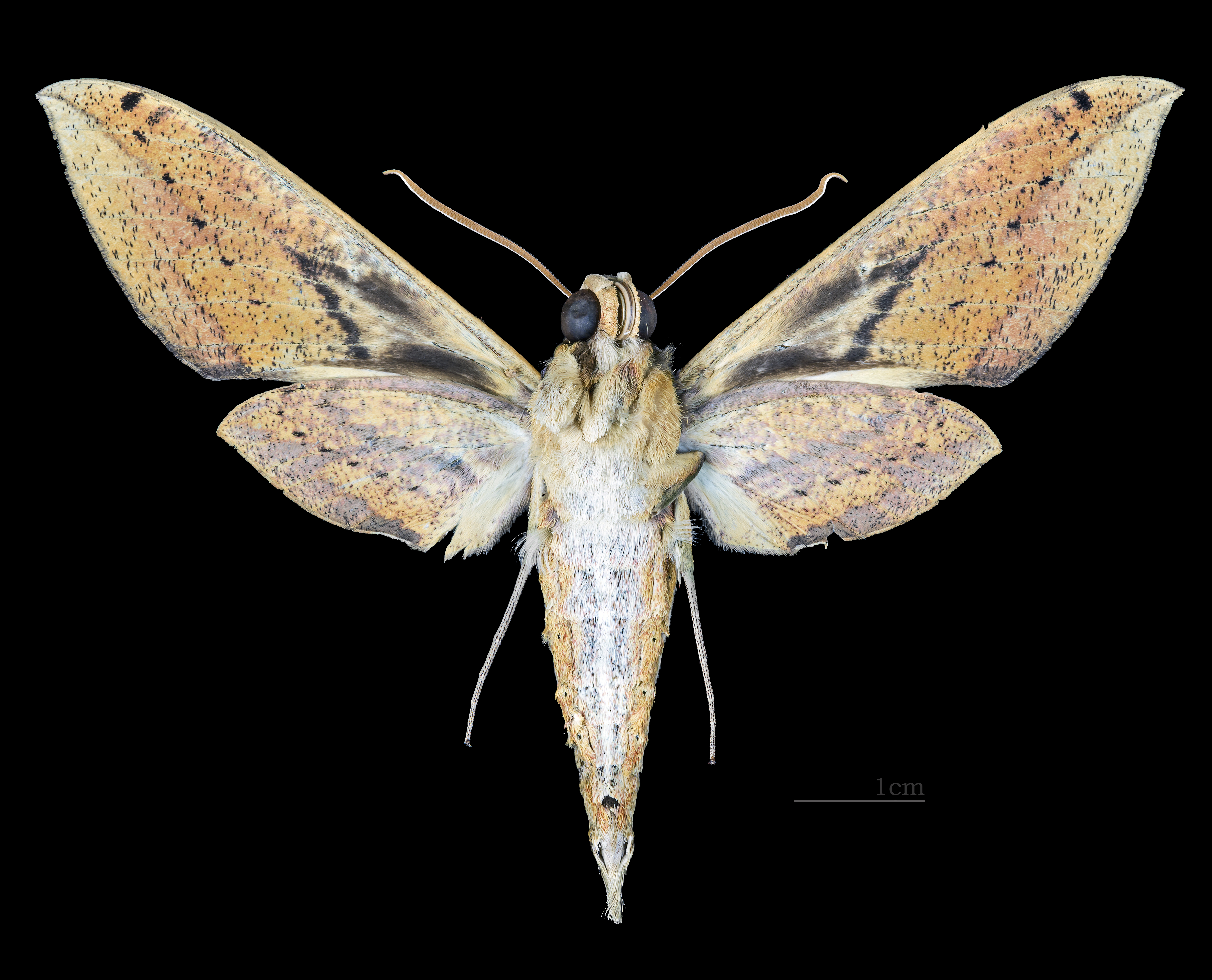 Cechenena pollux - △ Ventral side Collection of the Mathematician Laurent Schwartz